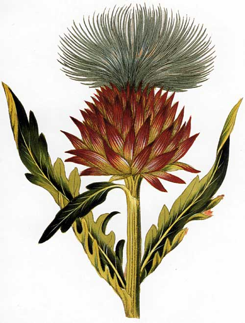 This image by Ignaz Alberti of Cynara cardunculus, commonly known as cardoon, appeared in Volume Six of Icones Plantarum (1817) by Ferdinand Bernhard Vietz.